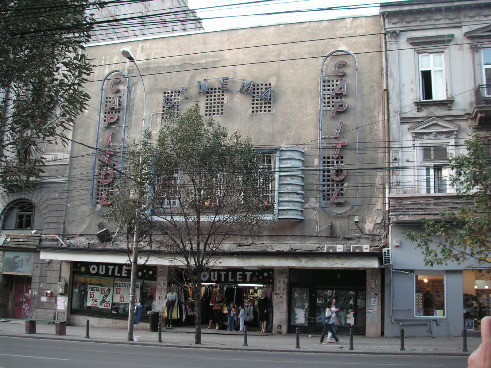 Capitol Cinema on Bulevardul Regina Elisabeta, Central Bucharest